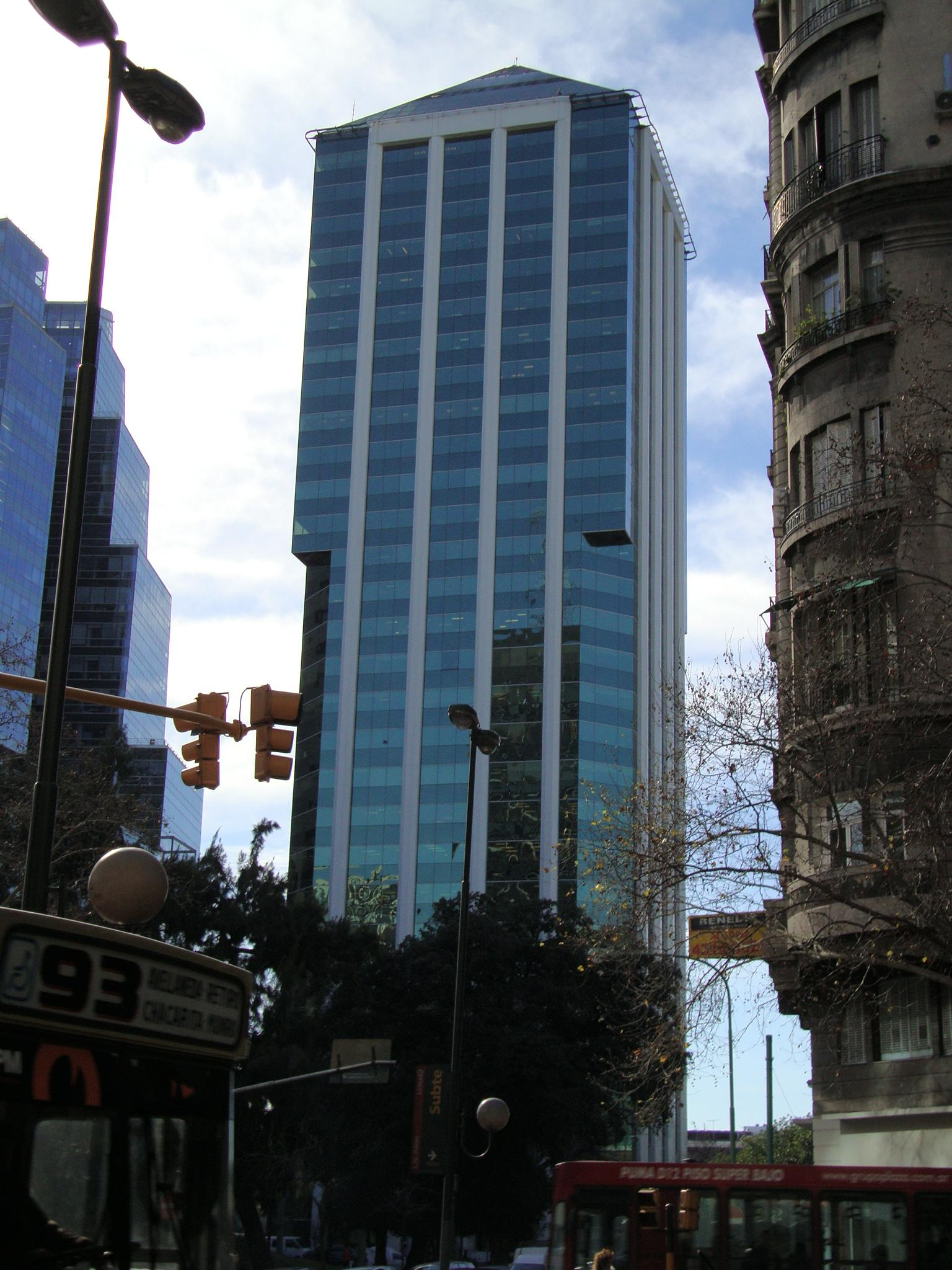 The Torre Bouchard in San Nicolás, Buenos Aires, Argentina.